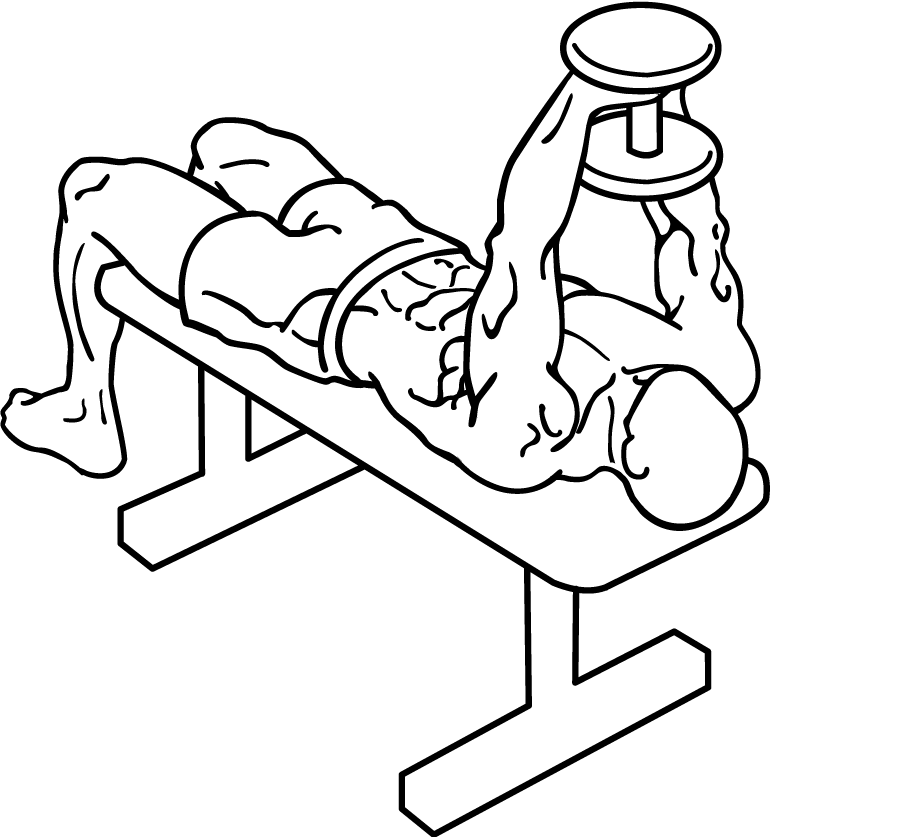 an exercise of upper back